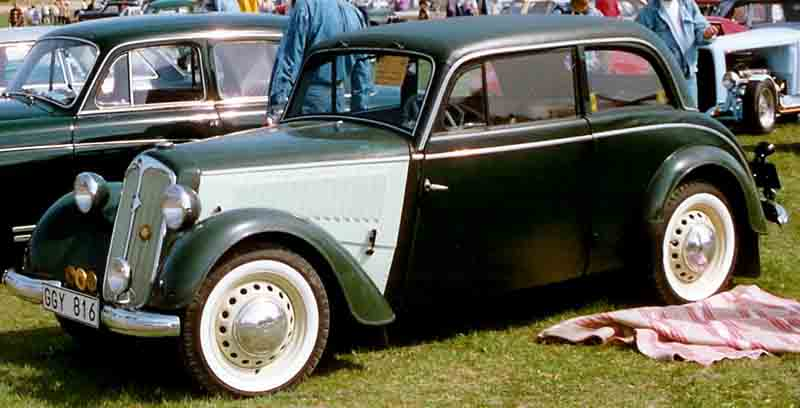 IFA F8, 1955